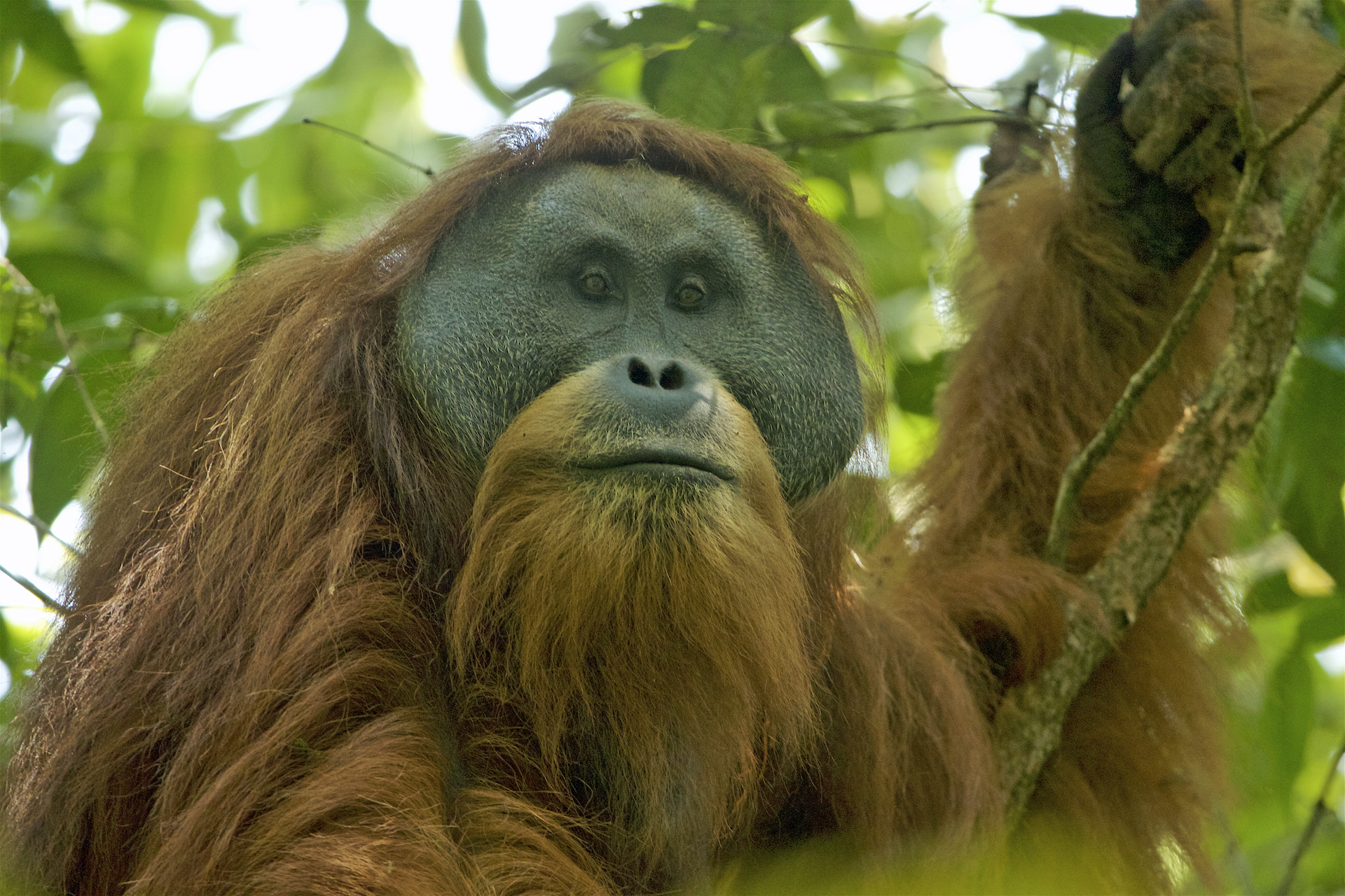 Frontal view of Pongo tapanuliensis Morphobank media number: M435788 See "paratypes" section of [1]